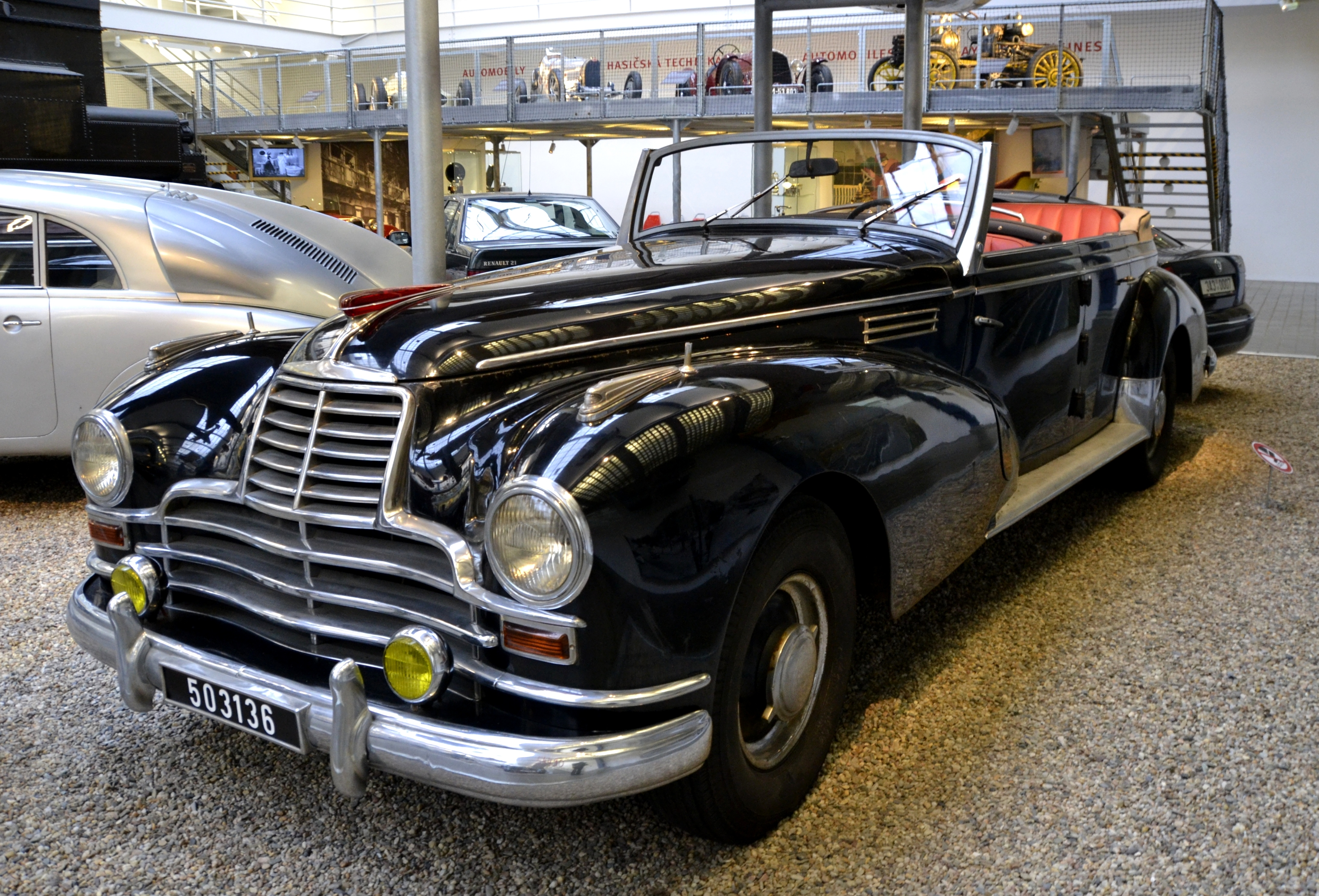 This is a modified Mercedes-Benz 770 that was built in 1939. After WW2, in 1952, the MB 770 was modified but the chassis remained the same. This unique automobile is displayed in the National Technical Museum in Prague.